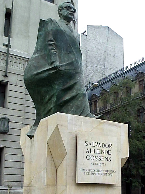 Statue of Salvador Allende (sculptor: Arturo Hevia) in front of the Palacio de la Moneda.